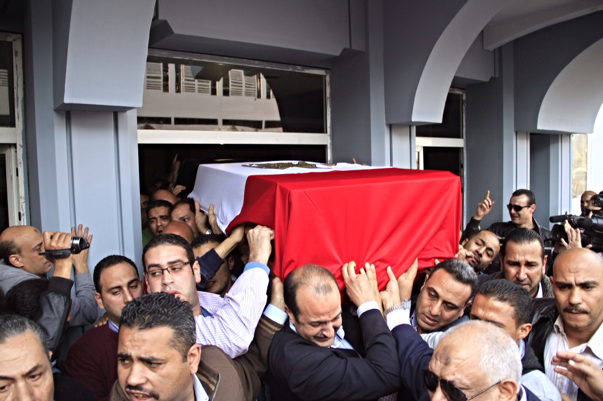 Original description: "The body of slain Police Brigadier General Tariq al-Mirjawi is carried out of the Agouza Police Hospital after a series of explosions hit Cairo University, Cairo, Egypt, April 2, 2012. (Hamada Elrasam for VOA)"